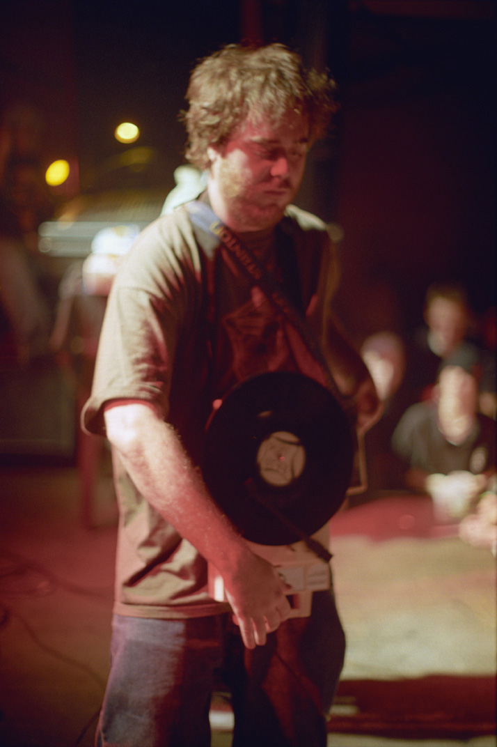 Cut chemist in Hamburg/Germany with Jurassic 5 in 2002